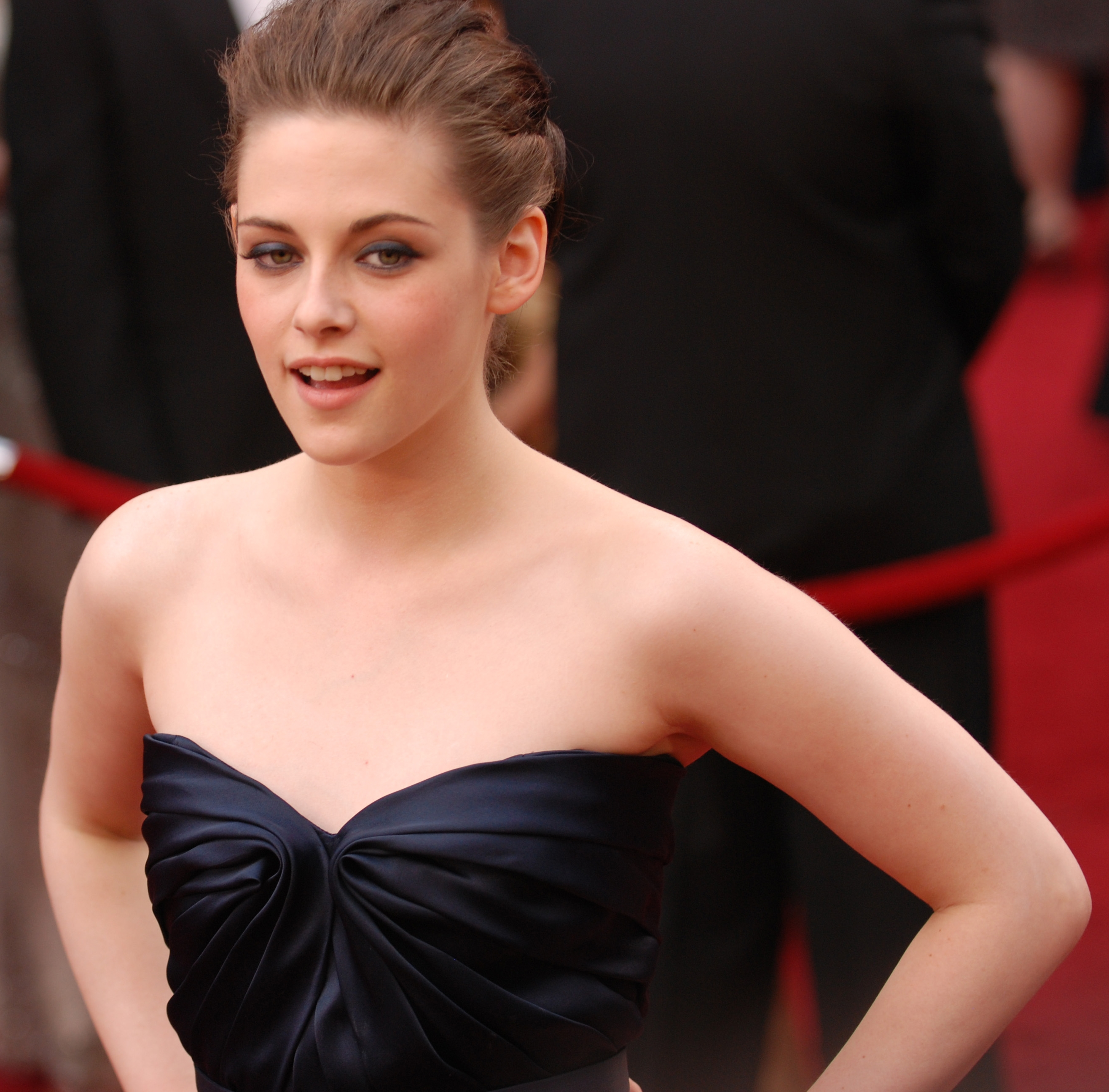 Kristen Stewart of "Twilight" fame plays on the vampire mystique at the 82nd Academy Awards, March 7, in Hollywood, Calif.